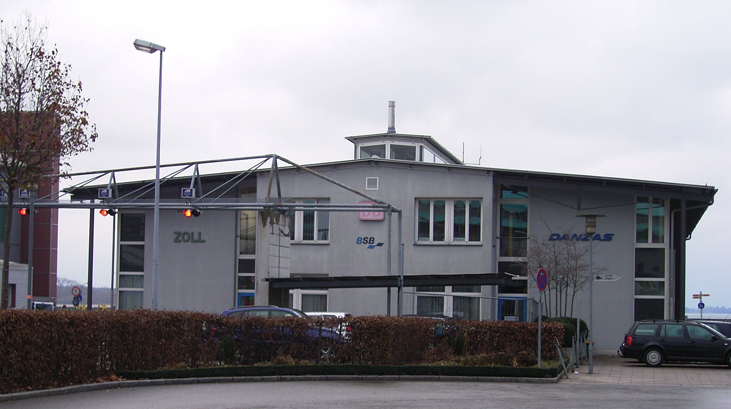 The BSB Building